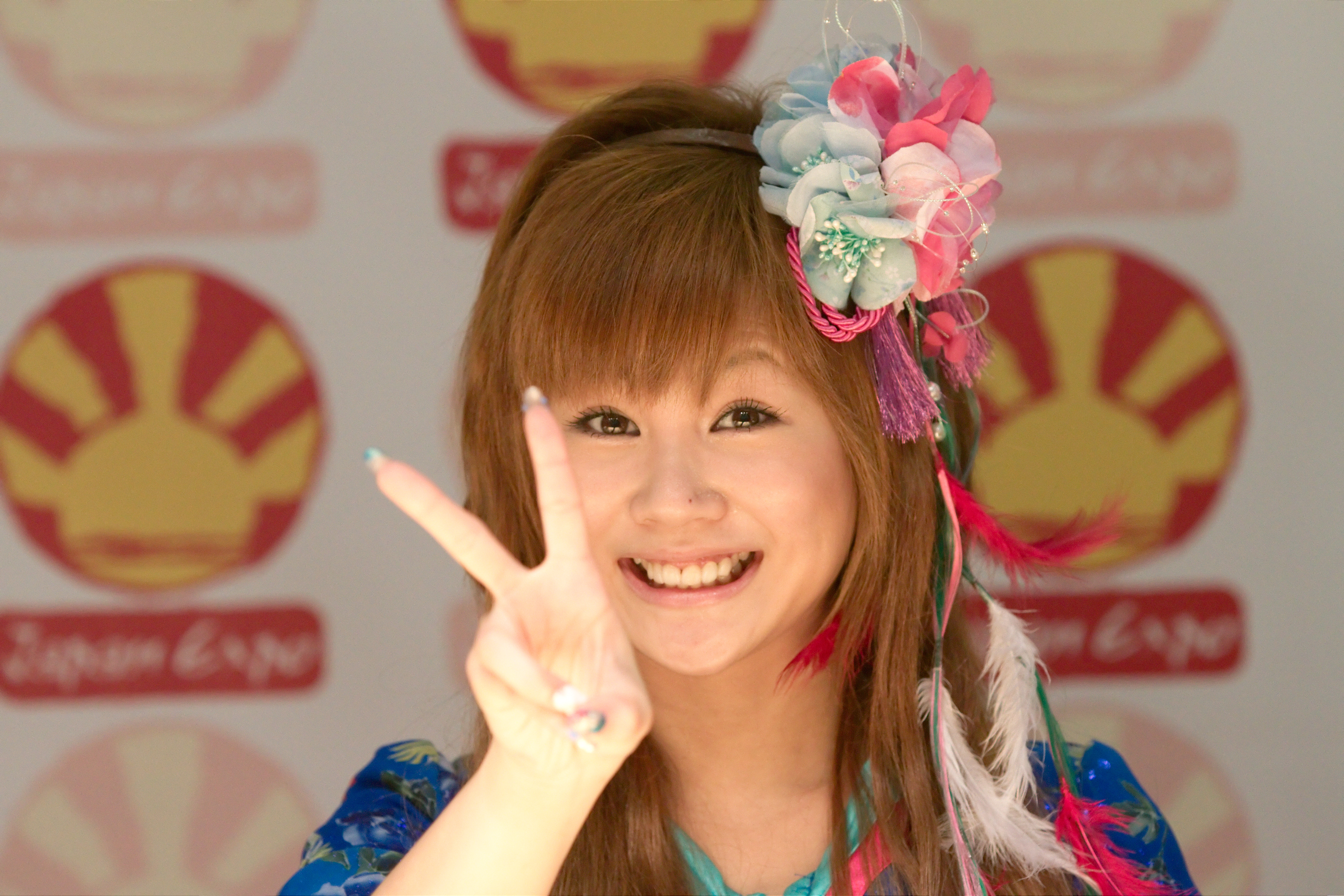 Risa Niigaki of Morning Musume during autograph session at Japan Expo, Sunday, July 03, 2010 (Paris, France).